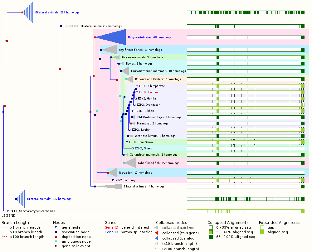 Taxonomic distribution of EZH2 orthologs